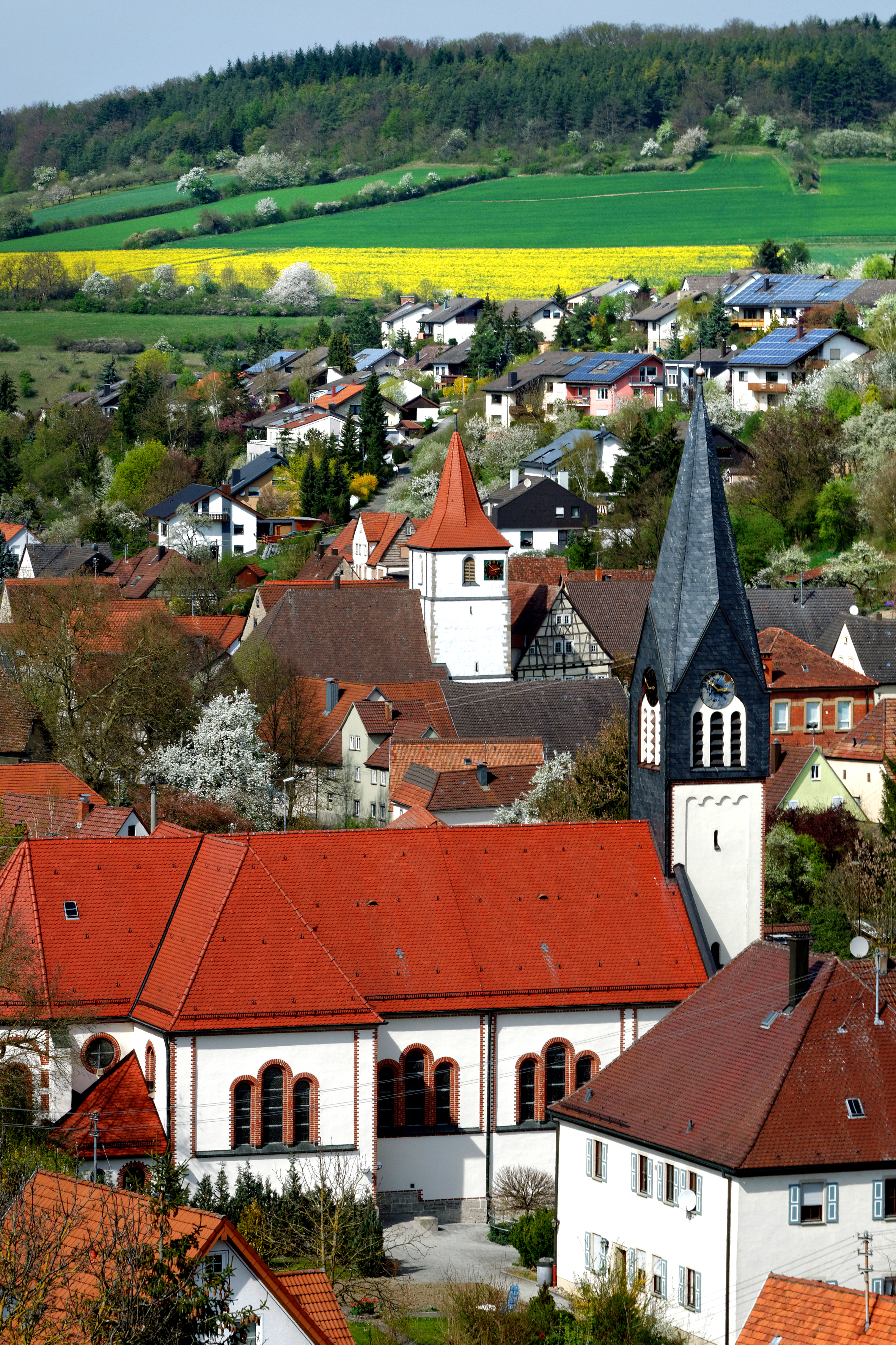 Wachbach, an idyllic place in the eponymous Valley.